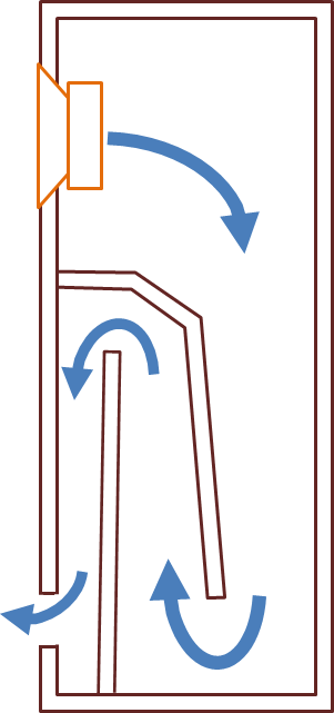 Typical "transmission line" audio speaker enclosure topology.